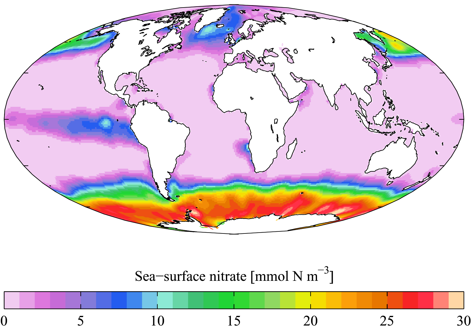 Annual mean sea surface nitrate from the World Ocean Atlas 2005. Nitrate here is in mmol N m-3. It is plotted here using a Mollweide projection (using MATLAB and the M_Map package).